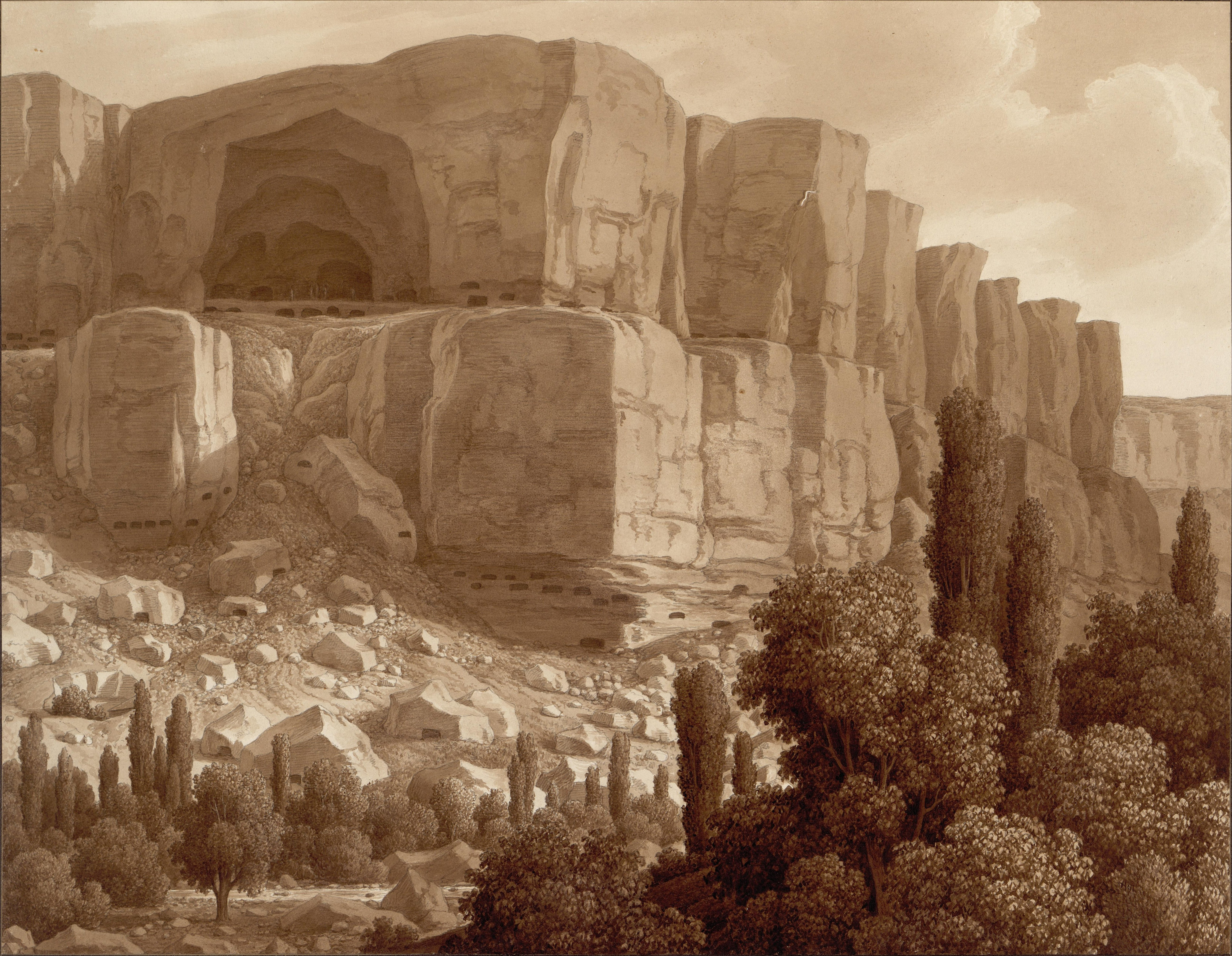 Backhisarai (from a Series of Views of the Crimea), 1824. Pen and brown wash over a pencil sketch. 31.5 x 41.2 cm (12 3/8 x 16 3/16 in.).